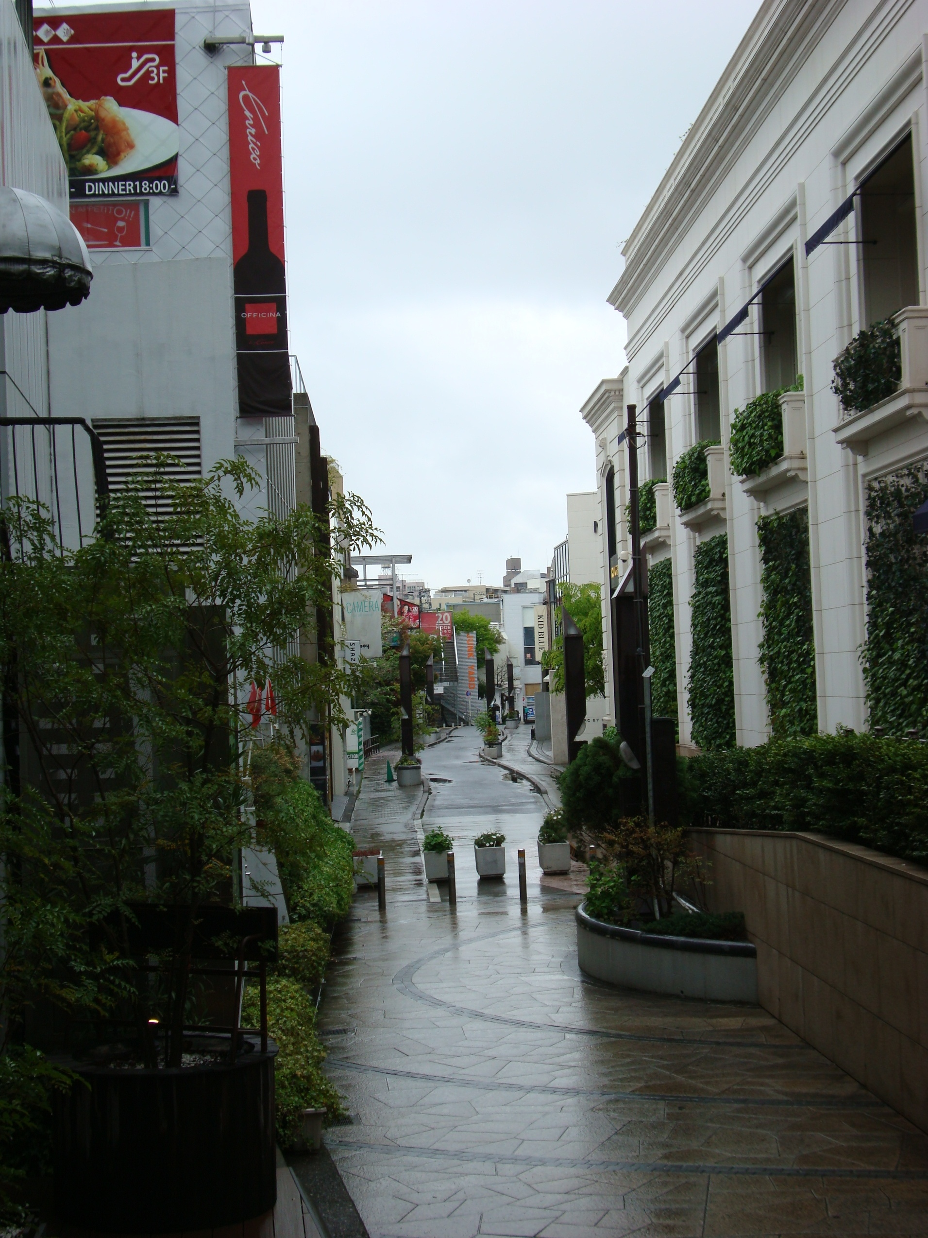 "Cat Street" at Omotesando, Tokyo